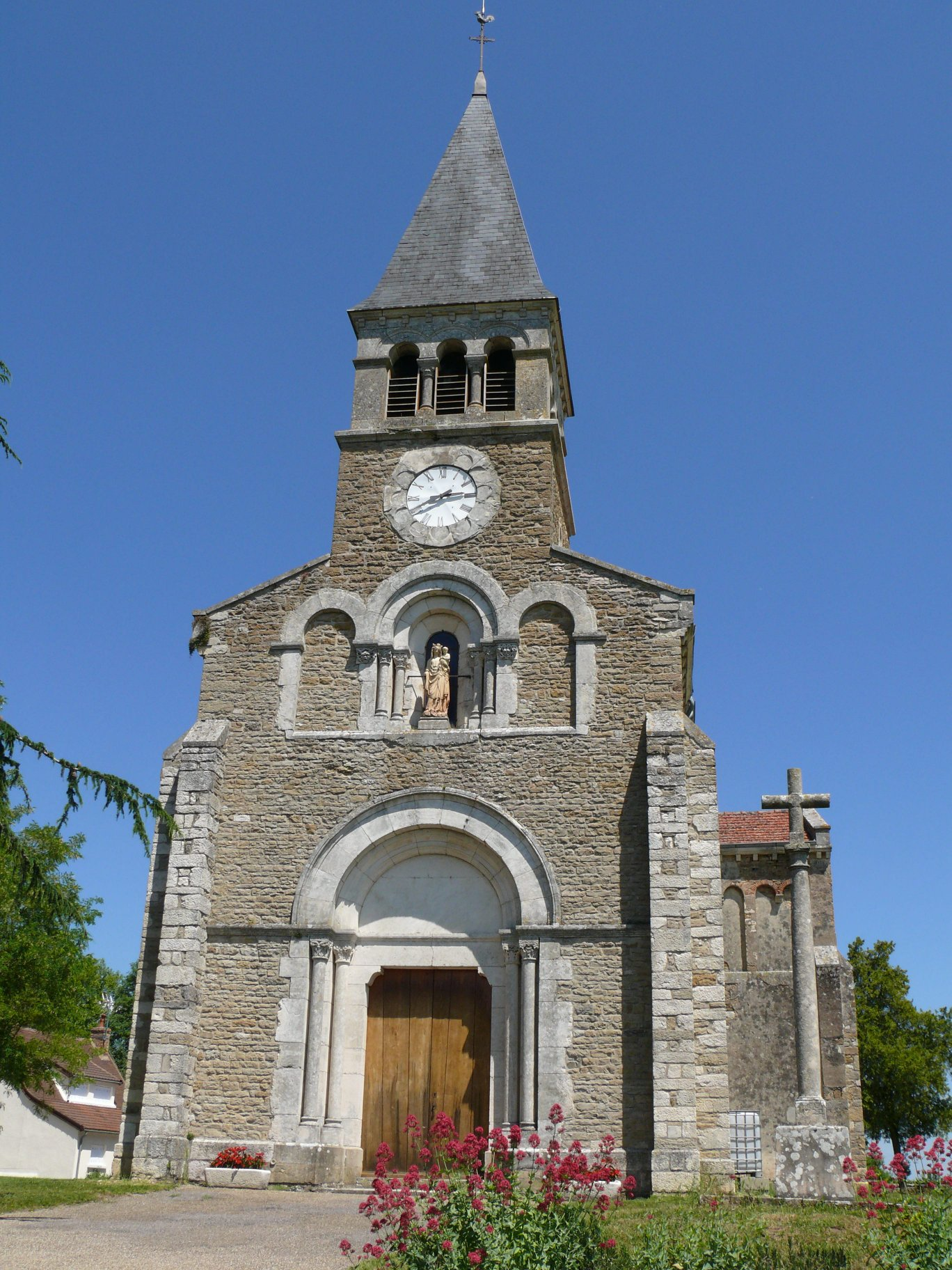 Saint-Maurice's church of Jully-les-Buxy (Saône-et-Loire, Bourgogne, France).